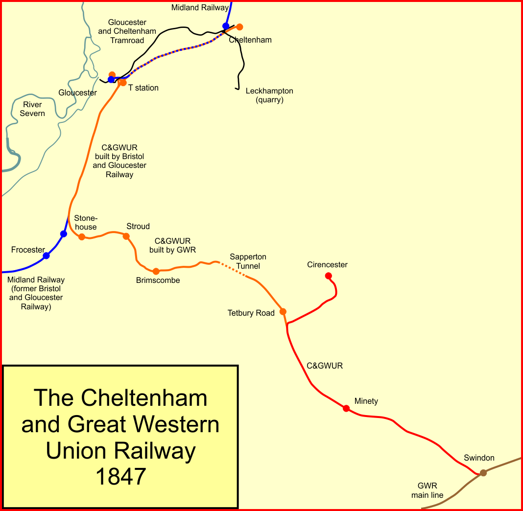 System map of the Cheltenham and Great Western Union Railway, England, in 1847